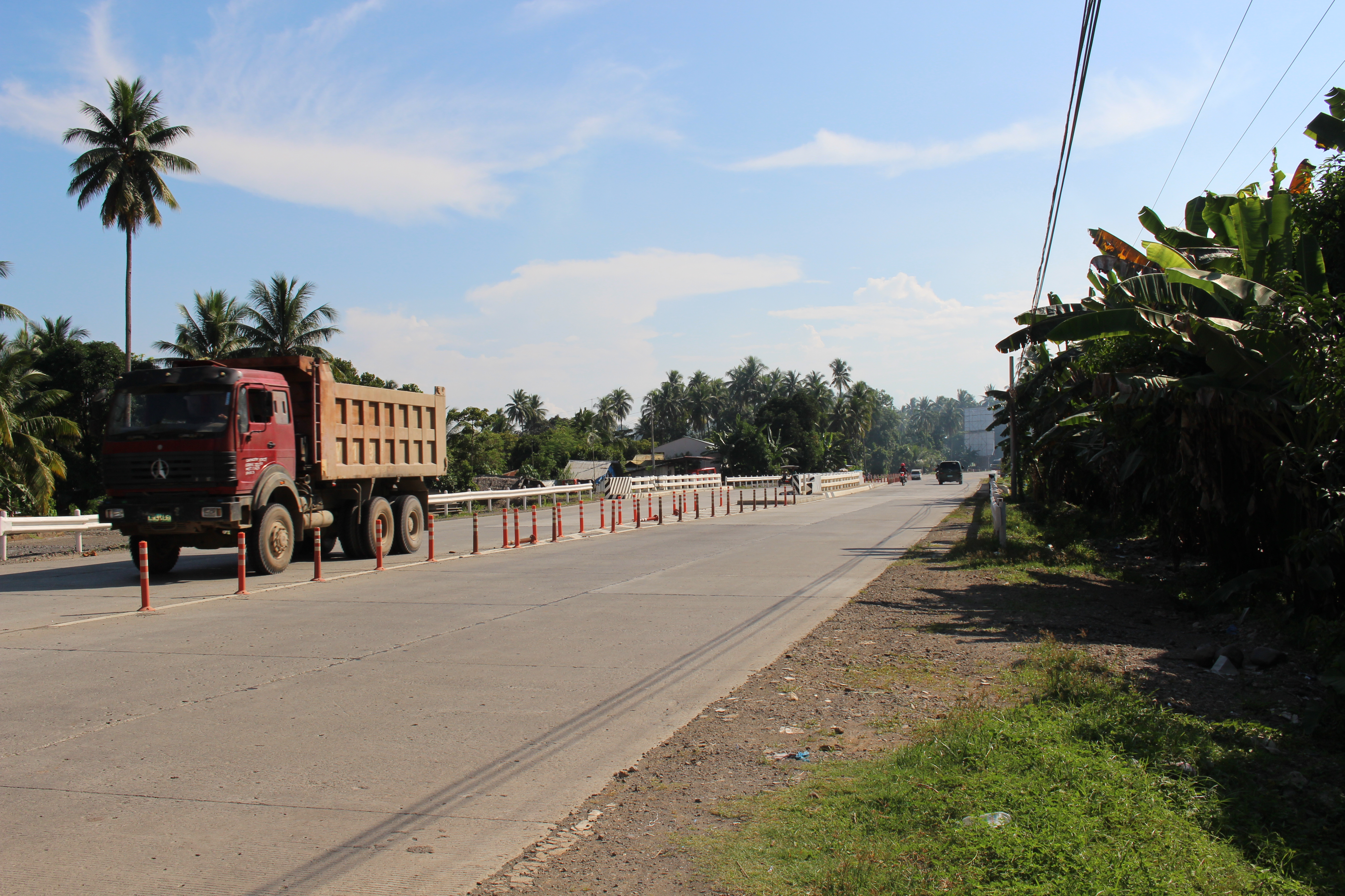 Segment of the Pan-Philippine Highway in Sta. Cruz, Davao del Sur.